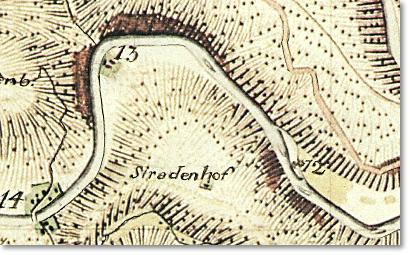 System of hachets as devised by Freiherr Karl von Müffling (died 1851).